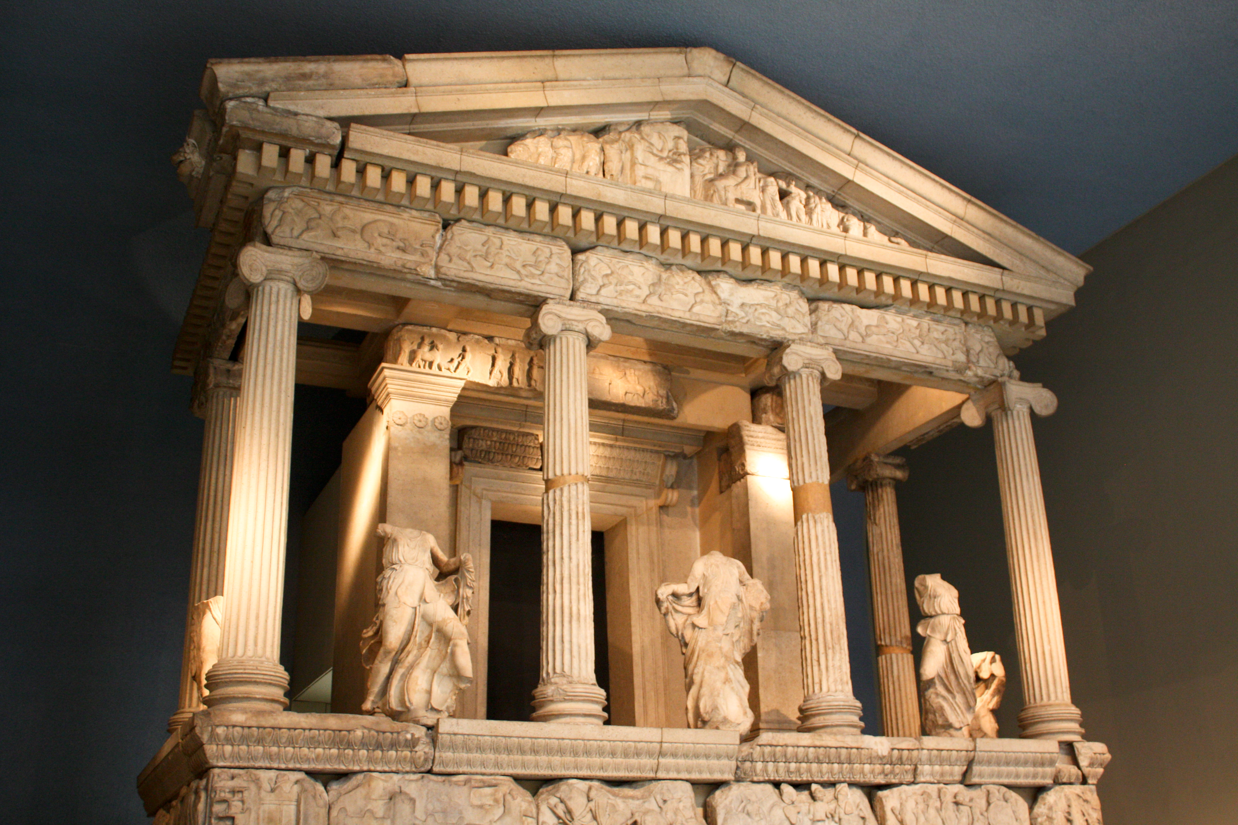 British Museum